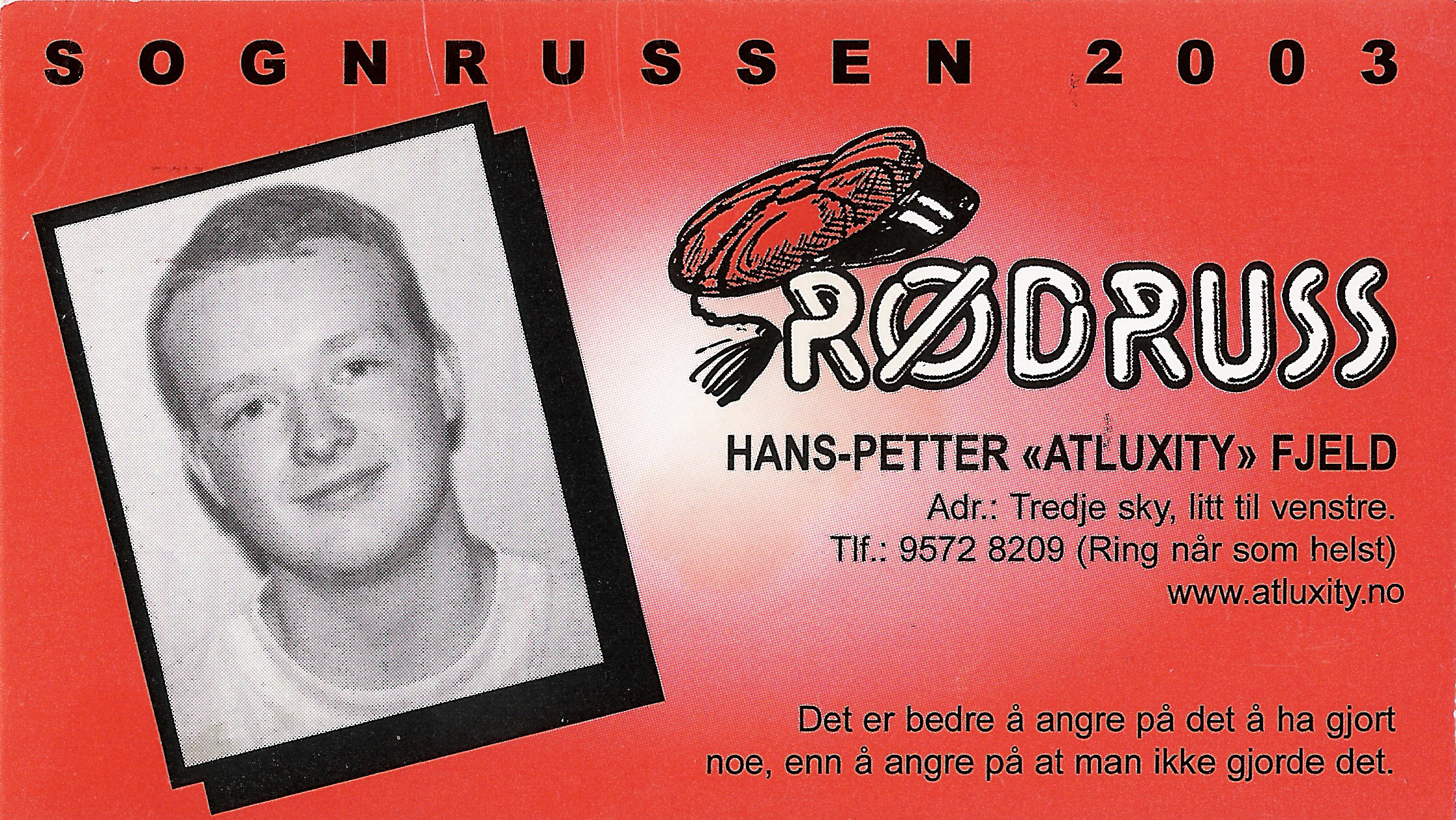 Scanned version of my russecard.